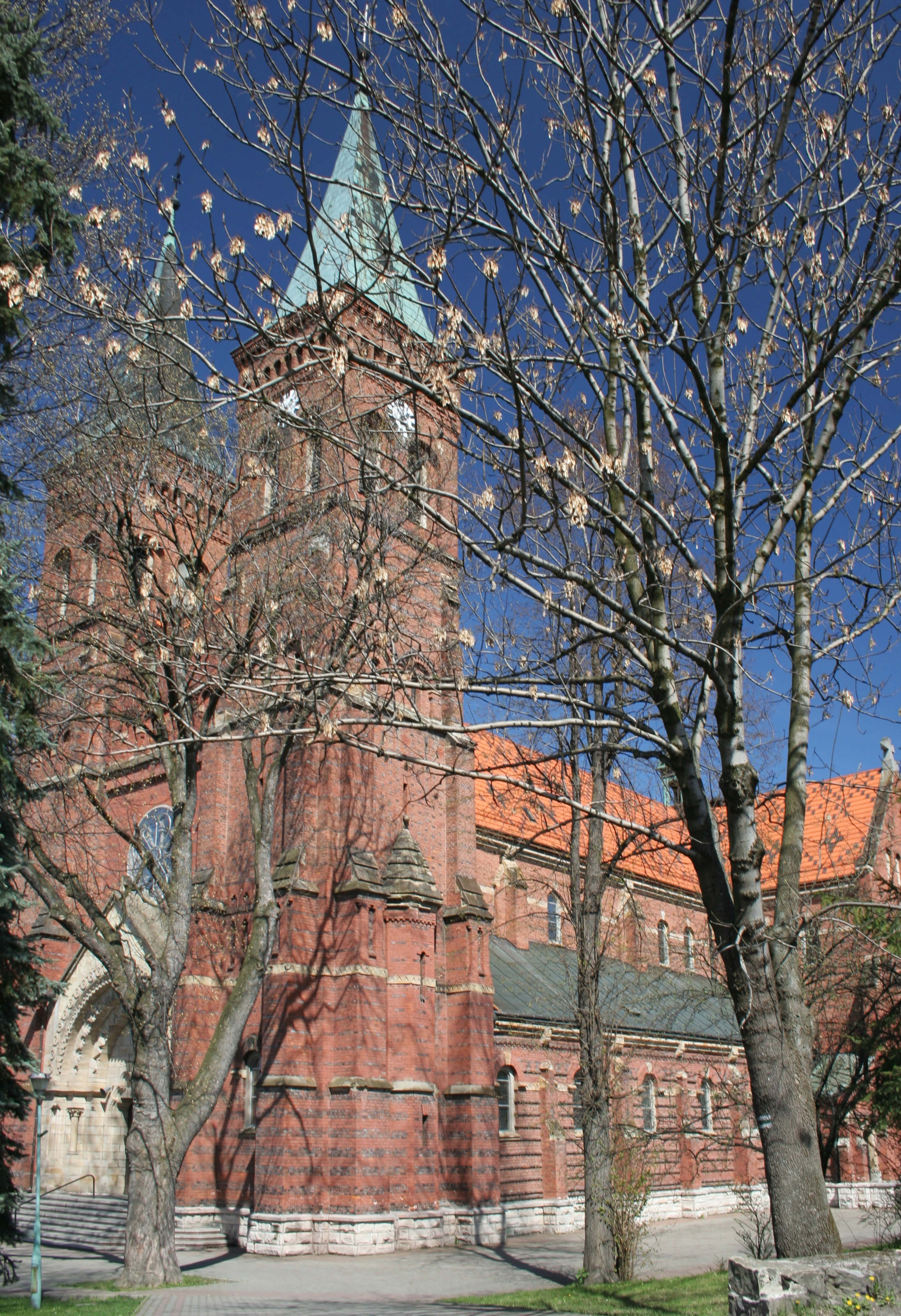 The church of Saint Martin in Błażowa, Poland.